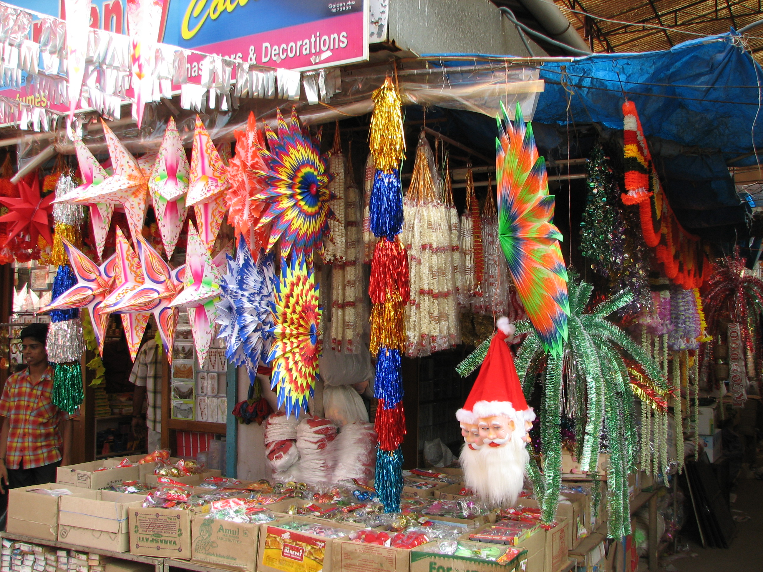 Christmas decorations for sale in Christian-dominated Cochin, Kerala. I love the colours! The Santa masks were a little creepy though. The timing was poignant as I coincidentally hit Kochi the day after American Thanksgiving when in the States the Christmas displays would suddenly appear in all the stores and malls, so to find myself randomly in what I'd have to call "decoration street" in the market in Ernakulam (the mainland part of Cochin) was very festive.